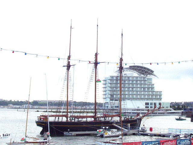 Cardiff Bay Schooner Schooner 'Kathleen and May' visiting Cardiff Bay, with the St David's Hotel in the background.